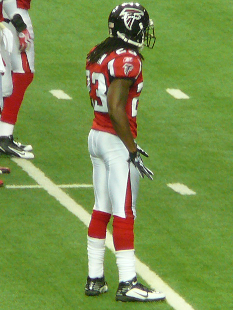 If used somewhere other than Wikipedia, Nelson, by name.